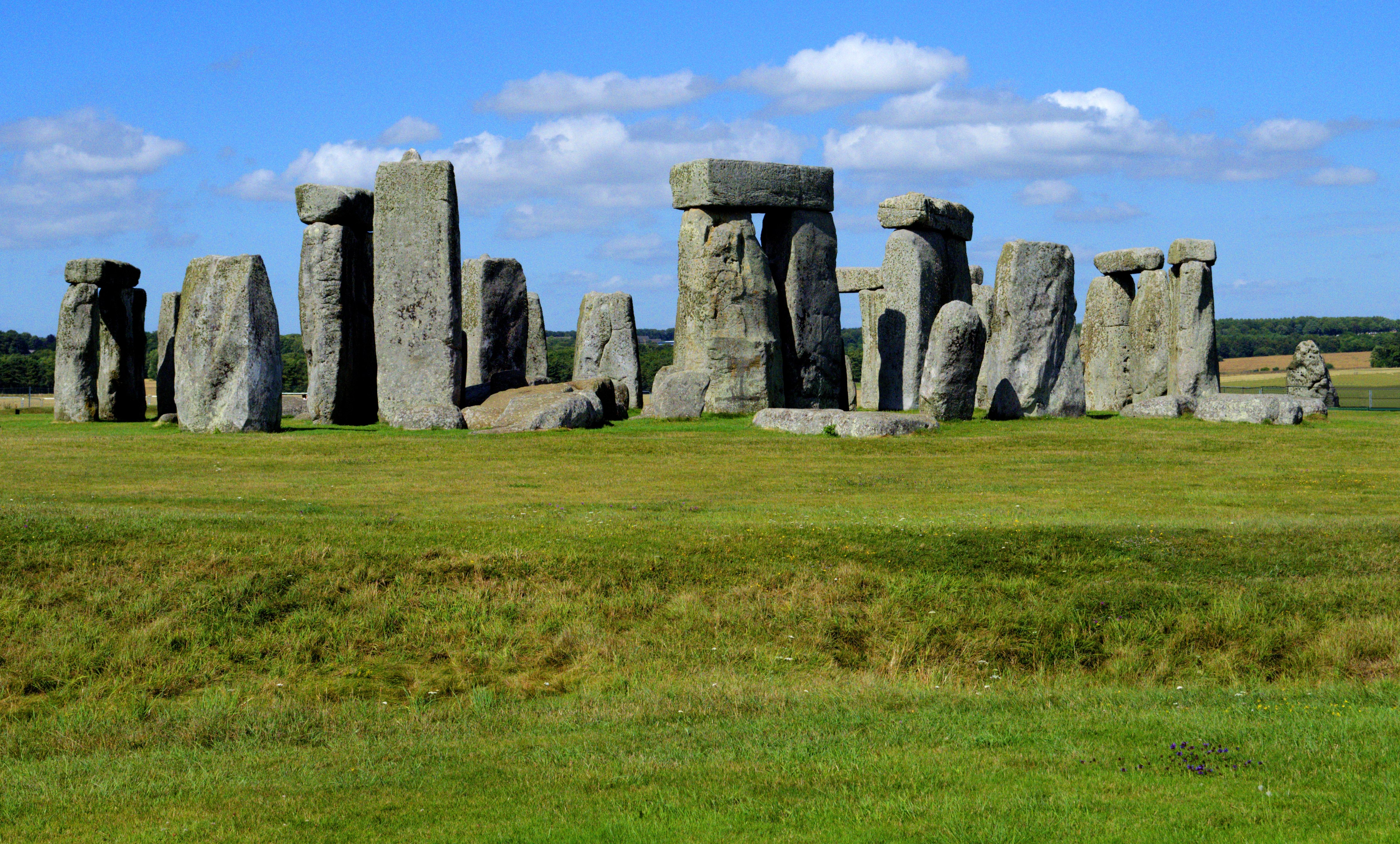 Stonehenge, Salisbury, UK